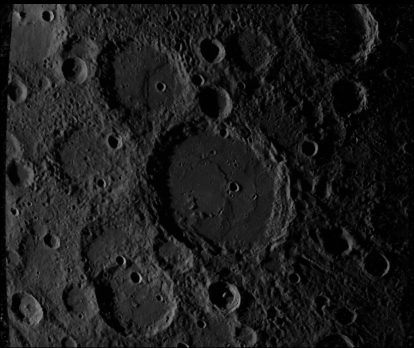 Image Number: 0027389GMT: 1974:088:19:23:14Start Time: 1974-03-29T19:23:14.335ZLatitude: -53.55° to -43.25°Longitude: 9.9° to 28.2°Resolution (meters per pixel): 456Incidence Angle: 83.8°Emission Angle: 34.34°Phase Angle: 103.61°Sōtatsu crater is at center. Tintoretto is at left. Po Ya is above left. Rilke is in upper right.